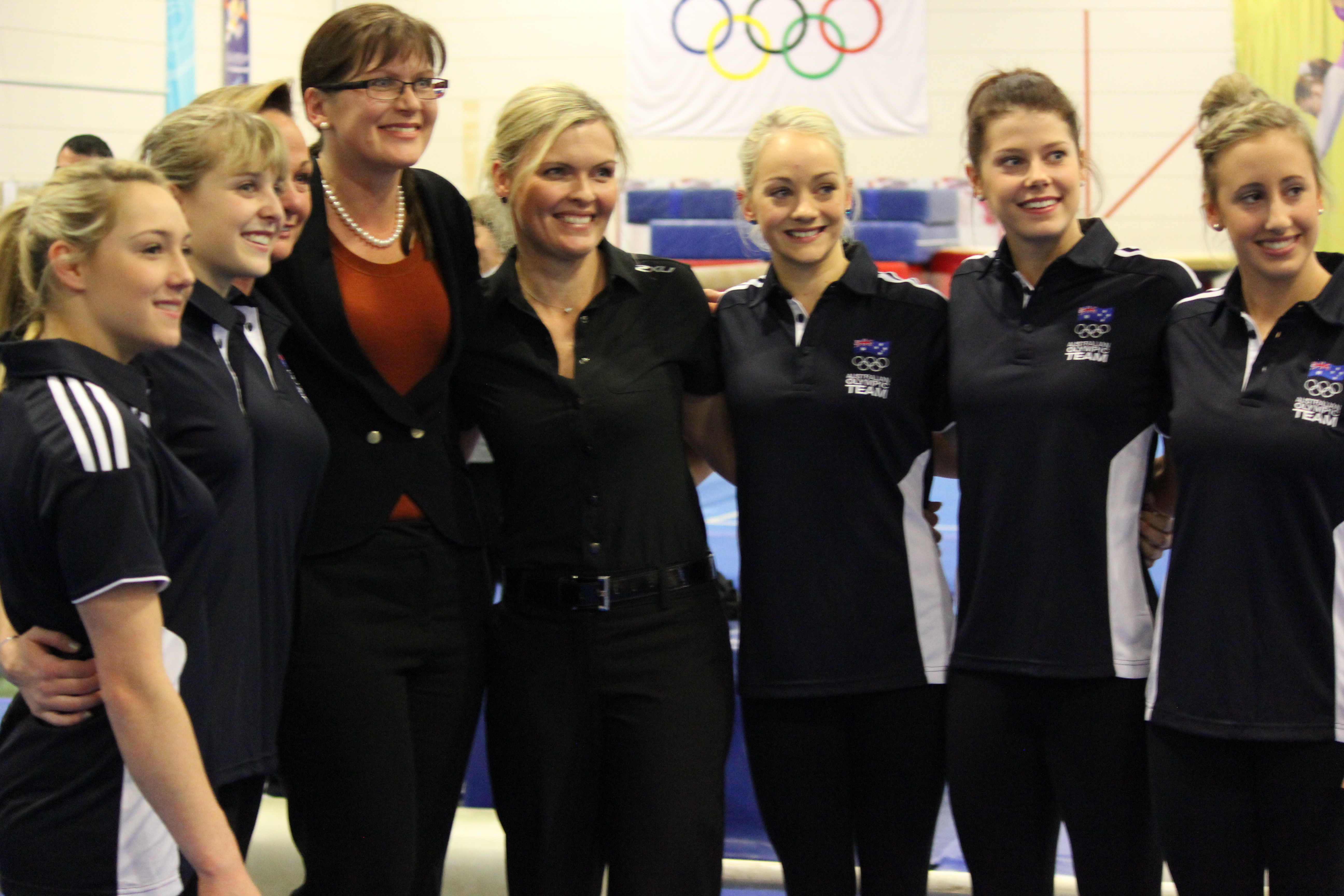 21 June 2012 at the Australian Institute of Sport Gymnastic Centre for the press event announcing the artistic gymnastics team for the London 2012 Summer Olympics attended by Tony Abbott and Kate Lundy. Left to right: Emily Little, Lauren Mitchell, Peggy Liddick (head coach), Kate Lundy, unknown, Larrissa Miller, Georgia Bonora, Ashleigh Brennan